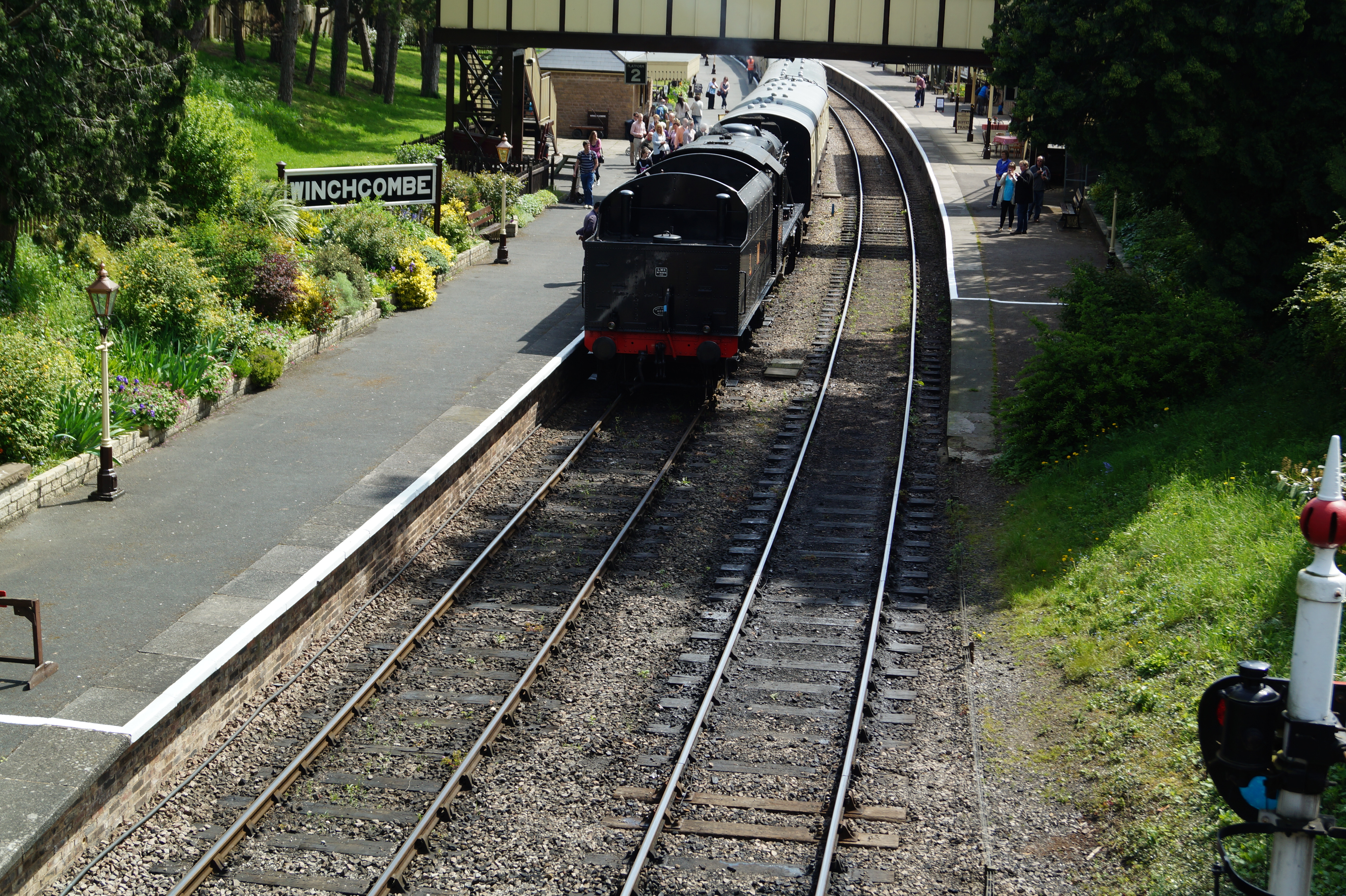 Black 5 8F - 8274 awaiting at Winchcombe on the Diner special on 4/05/14